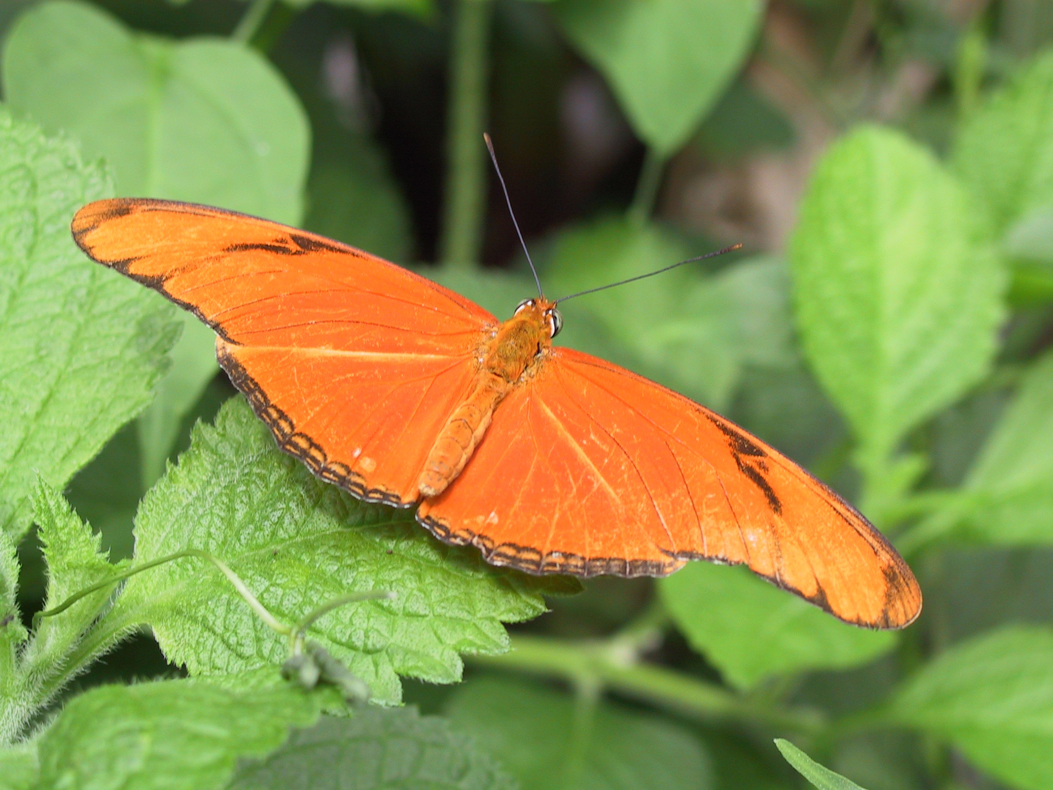 Julia Heliconian butterfly (Dryas julia Fabricius), taken summer 2004 at the Smithsonian National Zoological Park's Pollinarium exhibit (a butterfly garden). Copyright © 2004 by Steven G. Johnson, donated to Wikipedia under the GFDL. (Species was identified by comparison with this Dryas Julia page.)